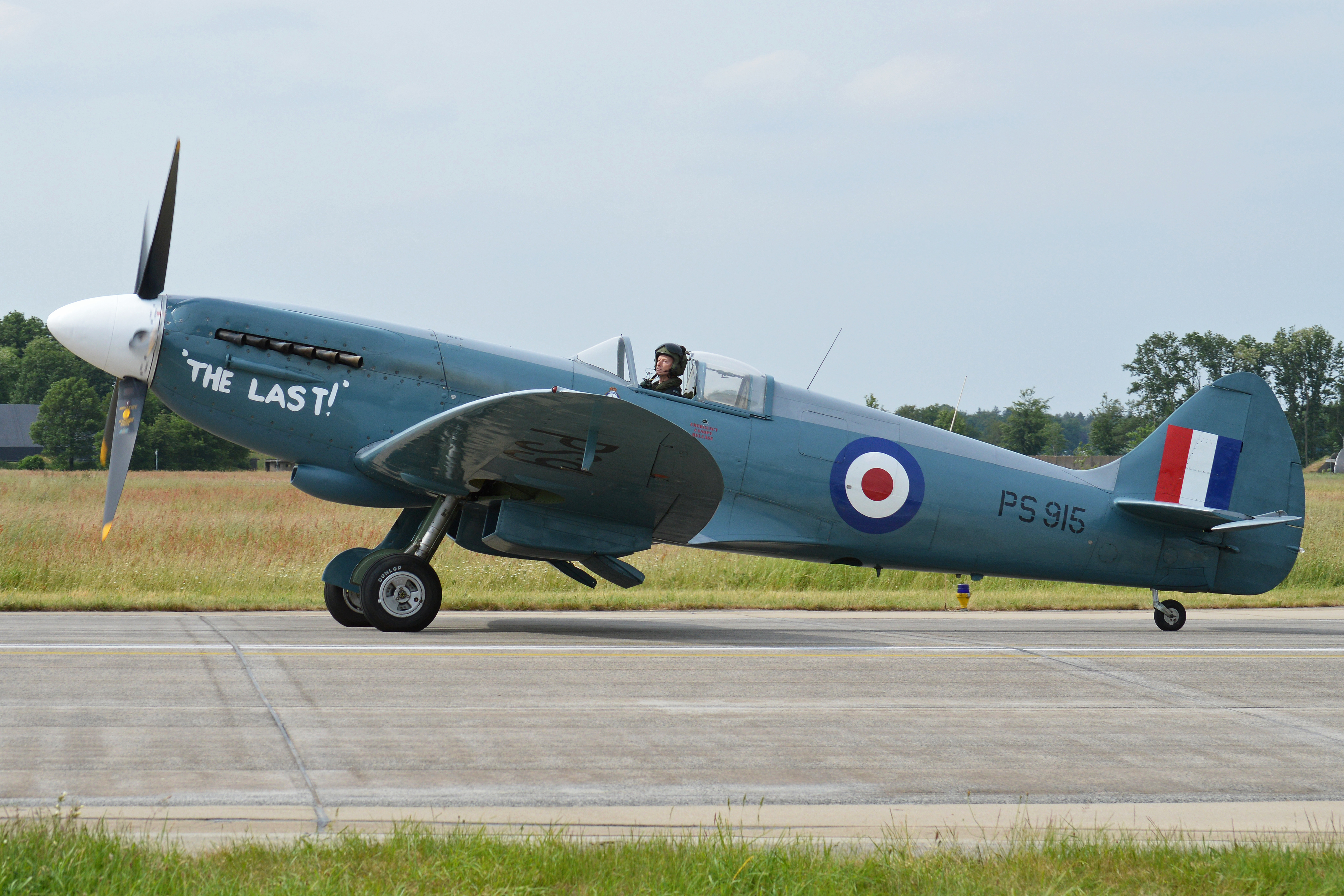 This Griffon engined Spitfire XIX of the RAF BBMF is taxiing in having completed her solo display at the '100th Anniversary of Dutch Military Aviation' airshow. She has just flown in directly from the UK. Although retaining her genuine serial, she is otherwise painted to represent 'PS888' which carried out the very last RAF Spitfire sortie. c/n 6S/585121. Volkel Airbase, Netherlands. 14-6-2013